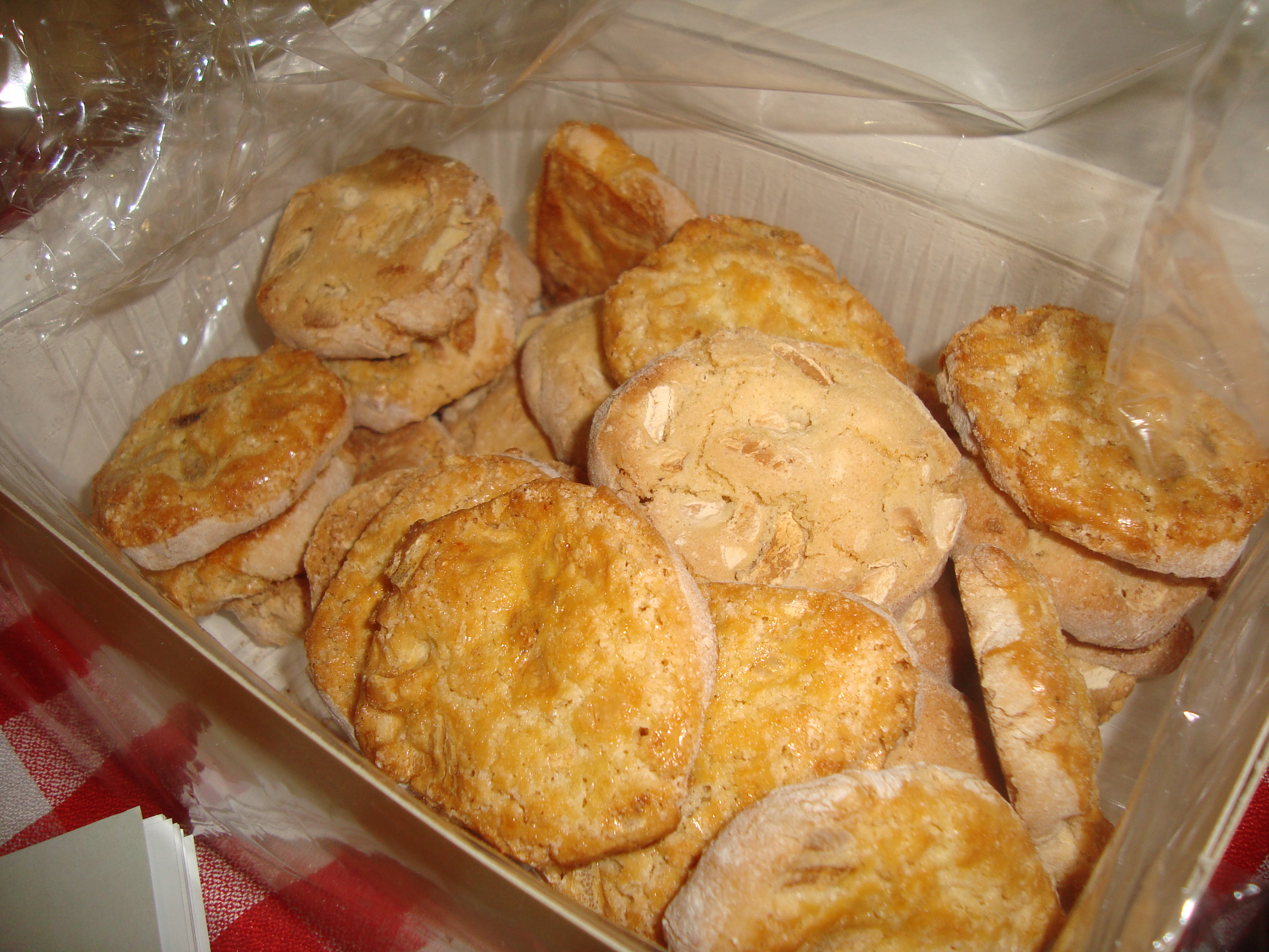 Carquiñoles, product of Teruel